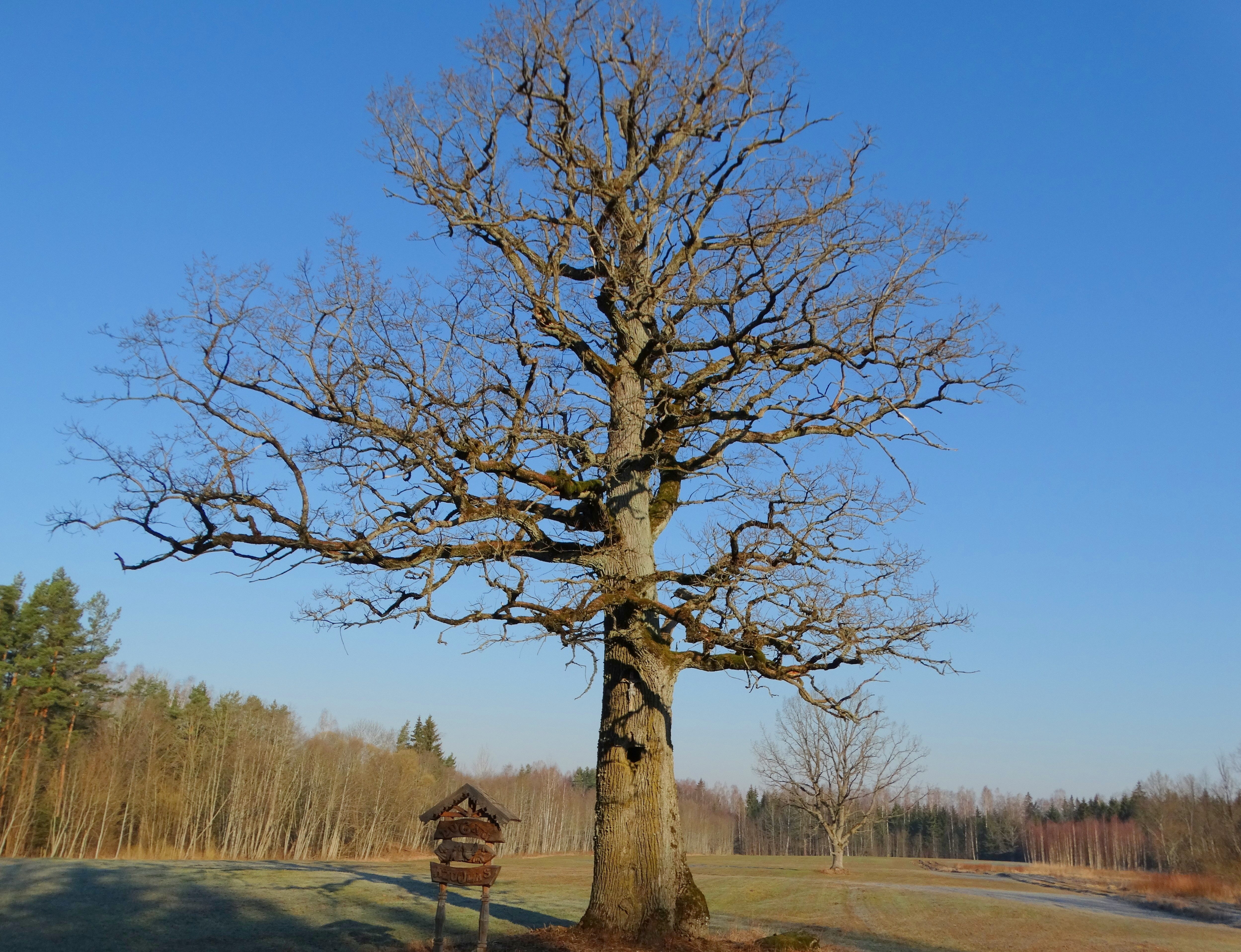 Dugnai Forest Oak, Šiauliai district, Lithuania